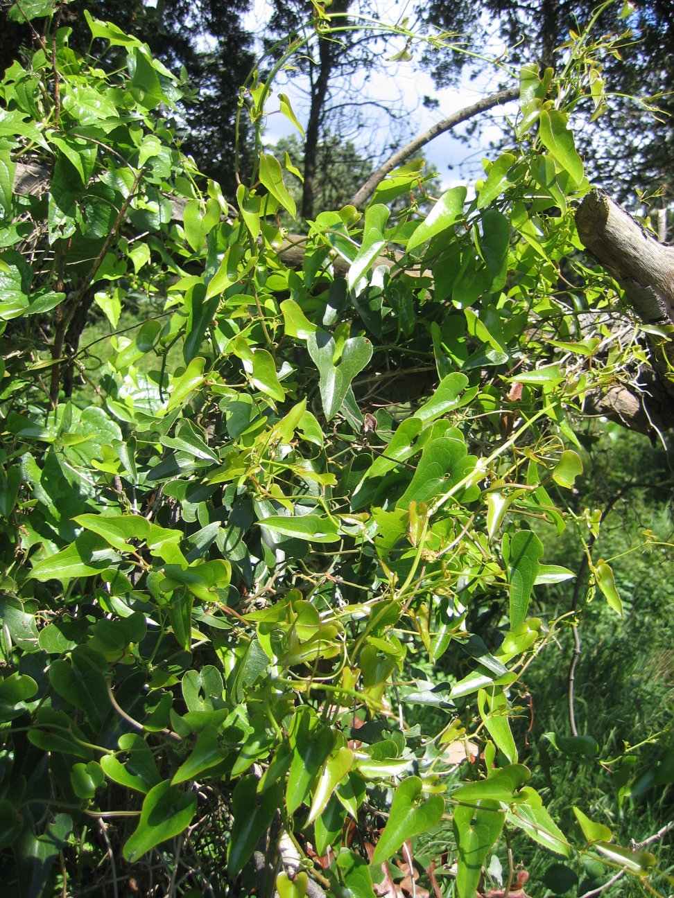 Smilax aspera. This photograph was taken on 2008-06-07 at Getxo in the Bizkaia province of the Basque Country (Europe), using a Canon PowerShot S50 camera. The original size was 2592x1944 pixels, it was reduced to the present size (1296x972 pixels) using the IrfanView freeware program.